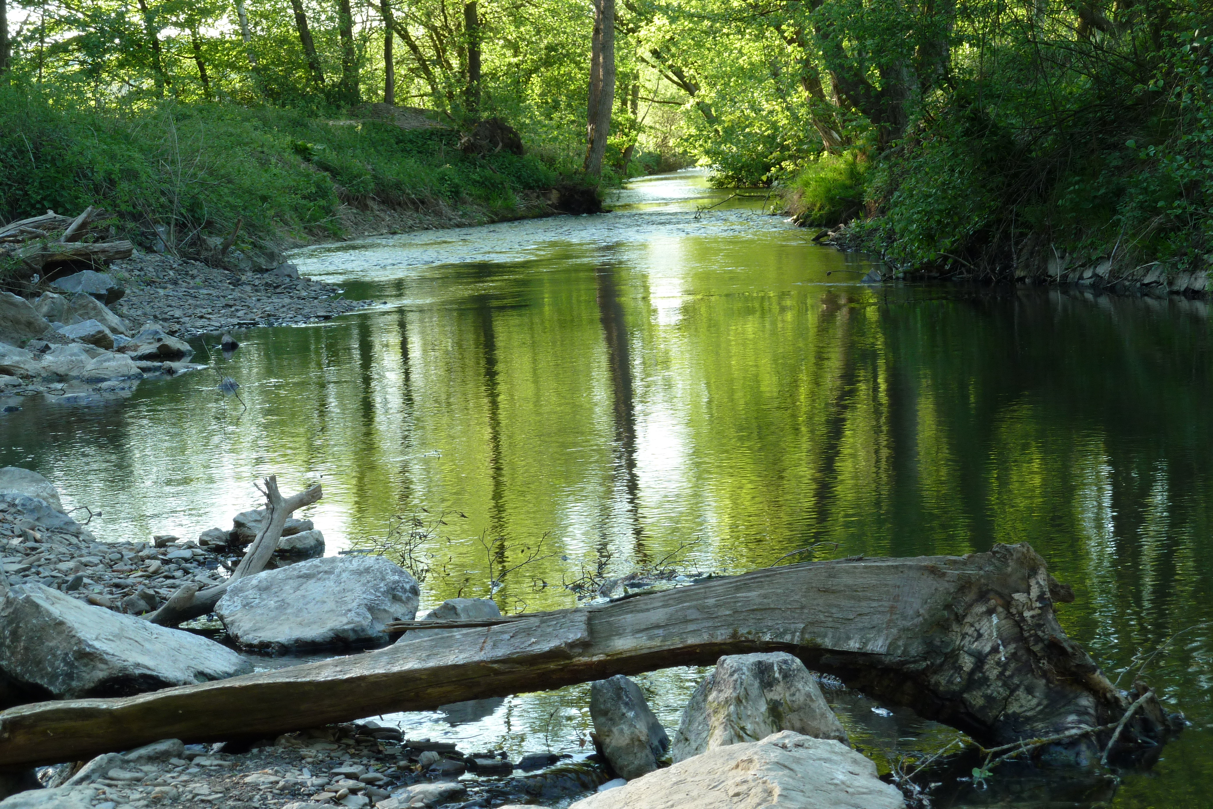 The Möhne near Warstein-Mülheim, Möhnetal nature reserve.